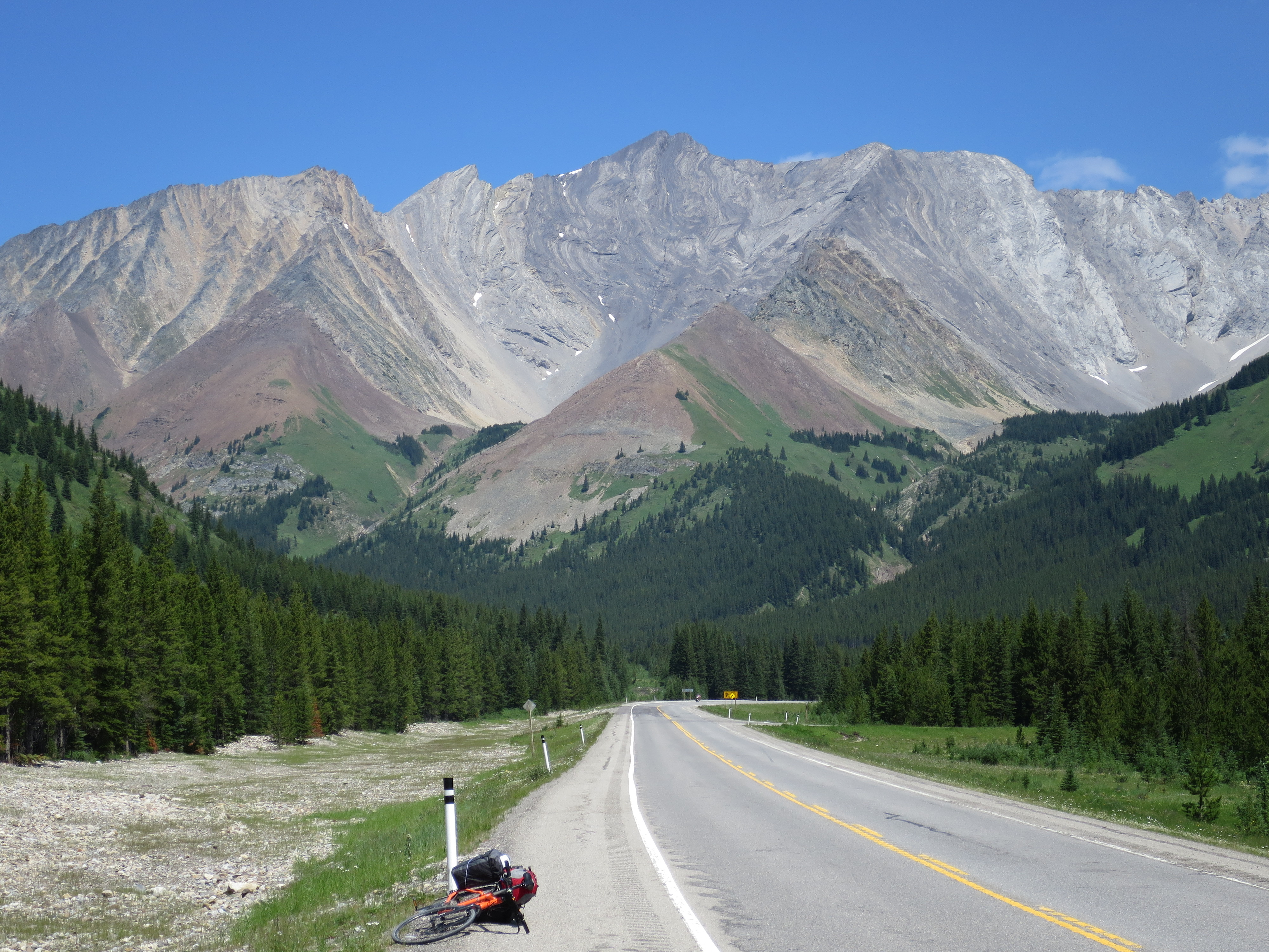 Storm Mountain (3095m, Misty Range) from the Kananaskis Trail (Alberta Highway 40, Canada), Highwood River valley, ca. 2000m, Elbow-Sheep Wildland Provincial Park, looking NNE.